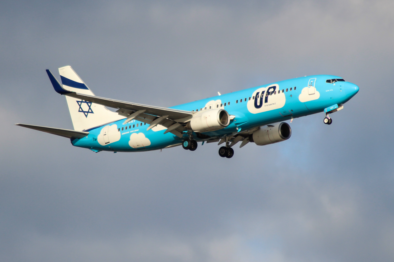 4X-EKT Boeing 737-800 El Al in Up markings landing at Glasgow Airport, bringing Happoel Be'er Sheva in to play Celtic